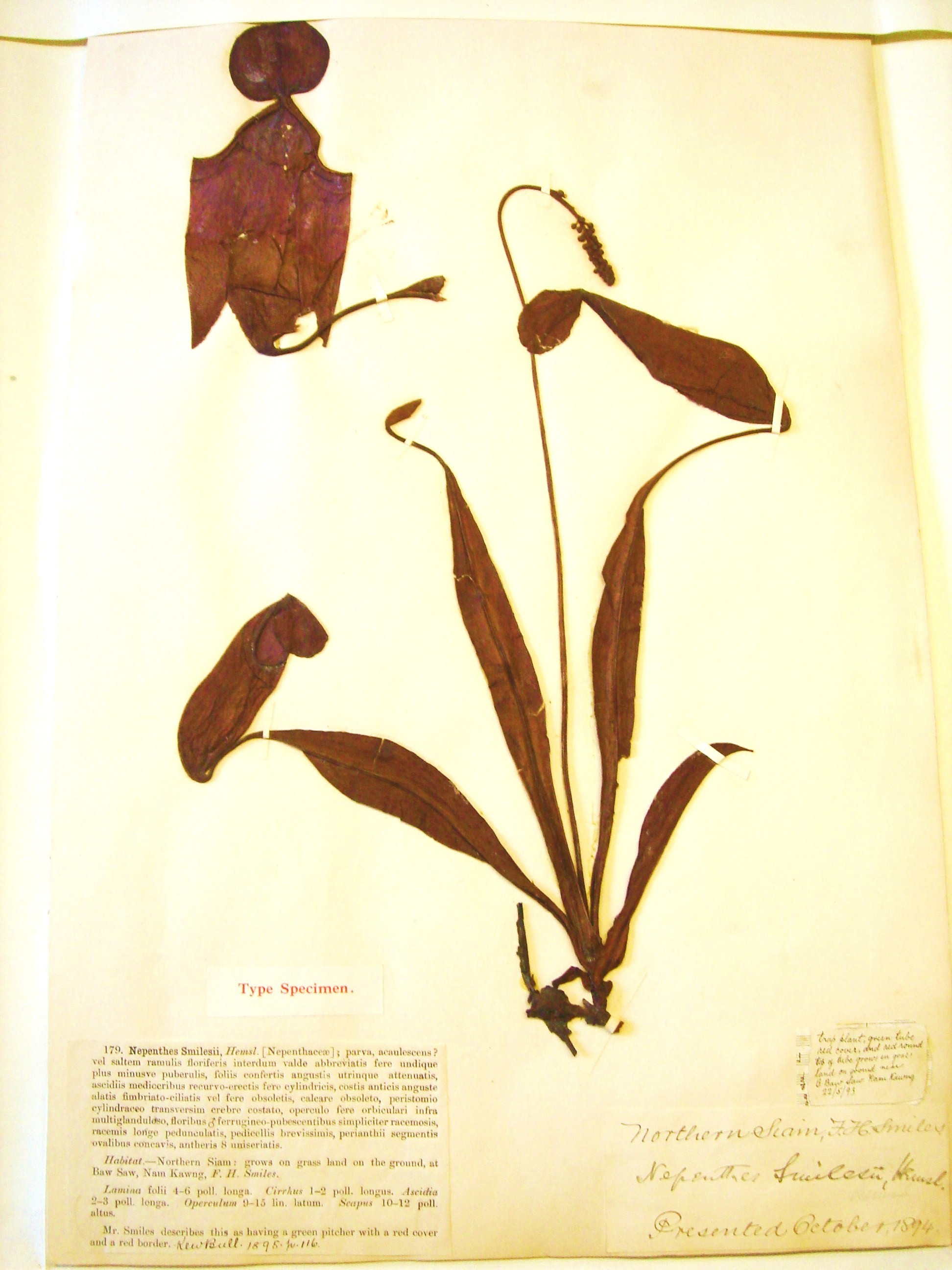 Nepenthes smilesii herbarium specimen (type specimen)